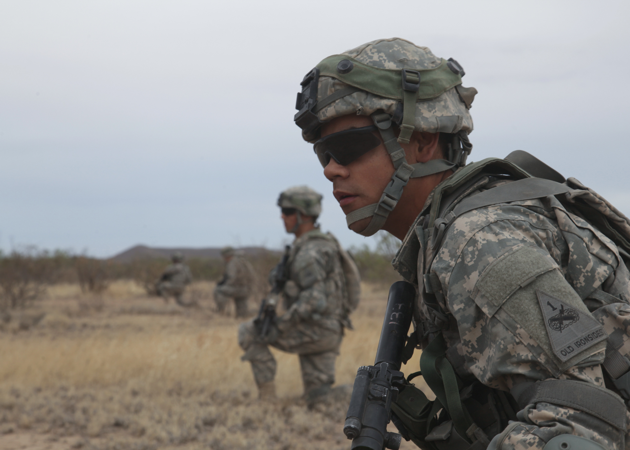 U.S. Army Pfc. Jose Lugo, assigned to Alpha Company, 3rd Battalion, 41st Infantry Regiment, 1st Brigade Combat Team, 1st Armored Division, awaits movement orders during live-fire training as part of exercise Iron Focus at Fort Bliss, Texas, April 26, 2012. The purpose of Iron Focus was to prepare the soldiers for future deployments.